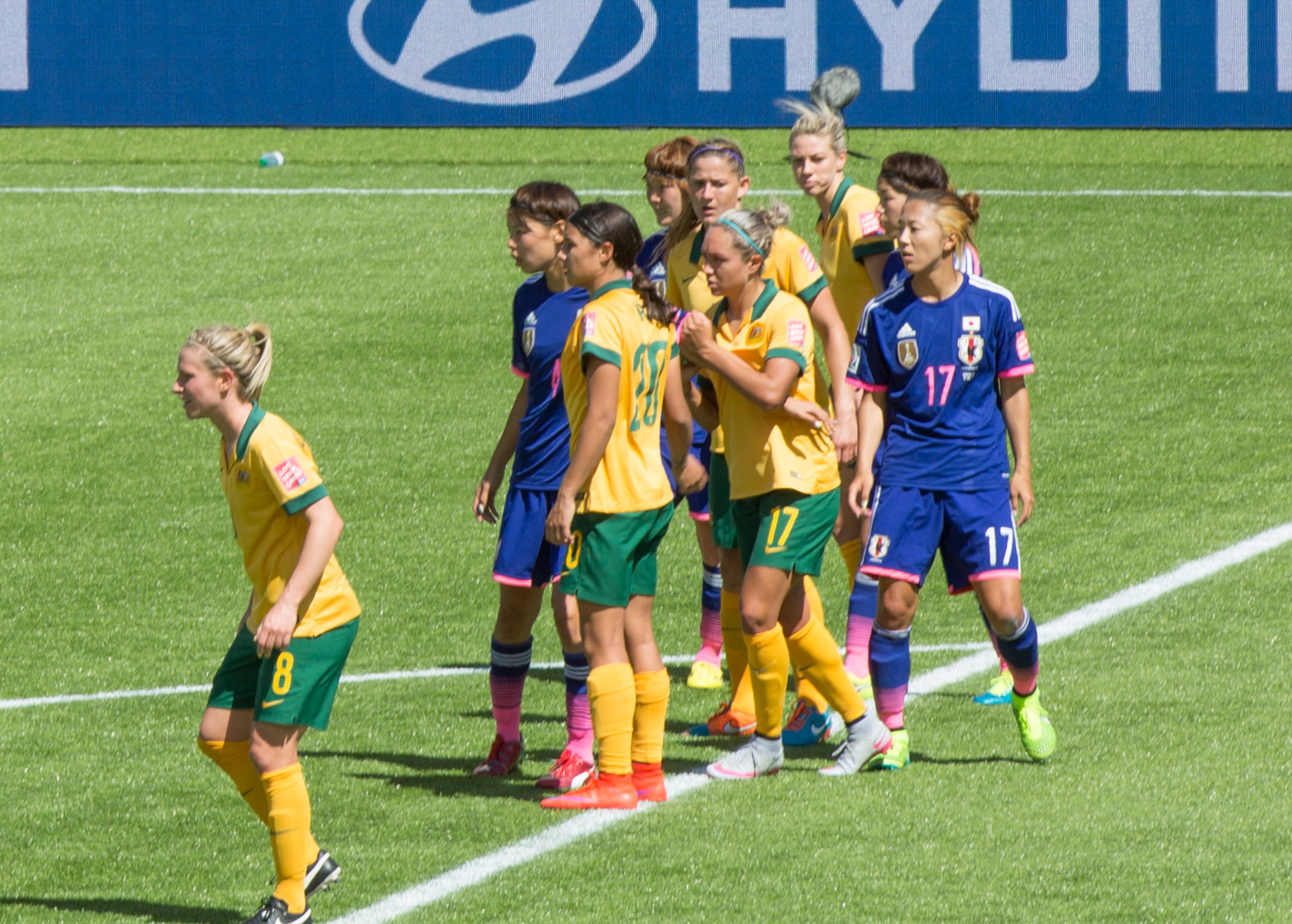 The 2015 FIFA Women's World Cup is the seventh FIFA Women's World Cup, the quadrennial international women's football world championship tournament. The tournament will be held from 6 June to 5 July 2015. Japan vs Australia Match Highlights